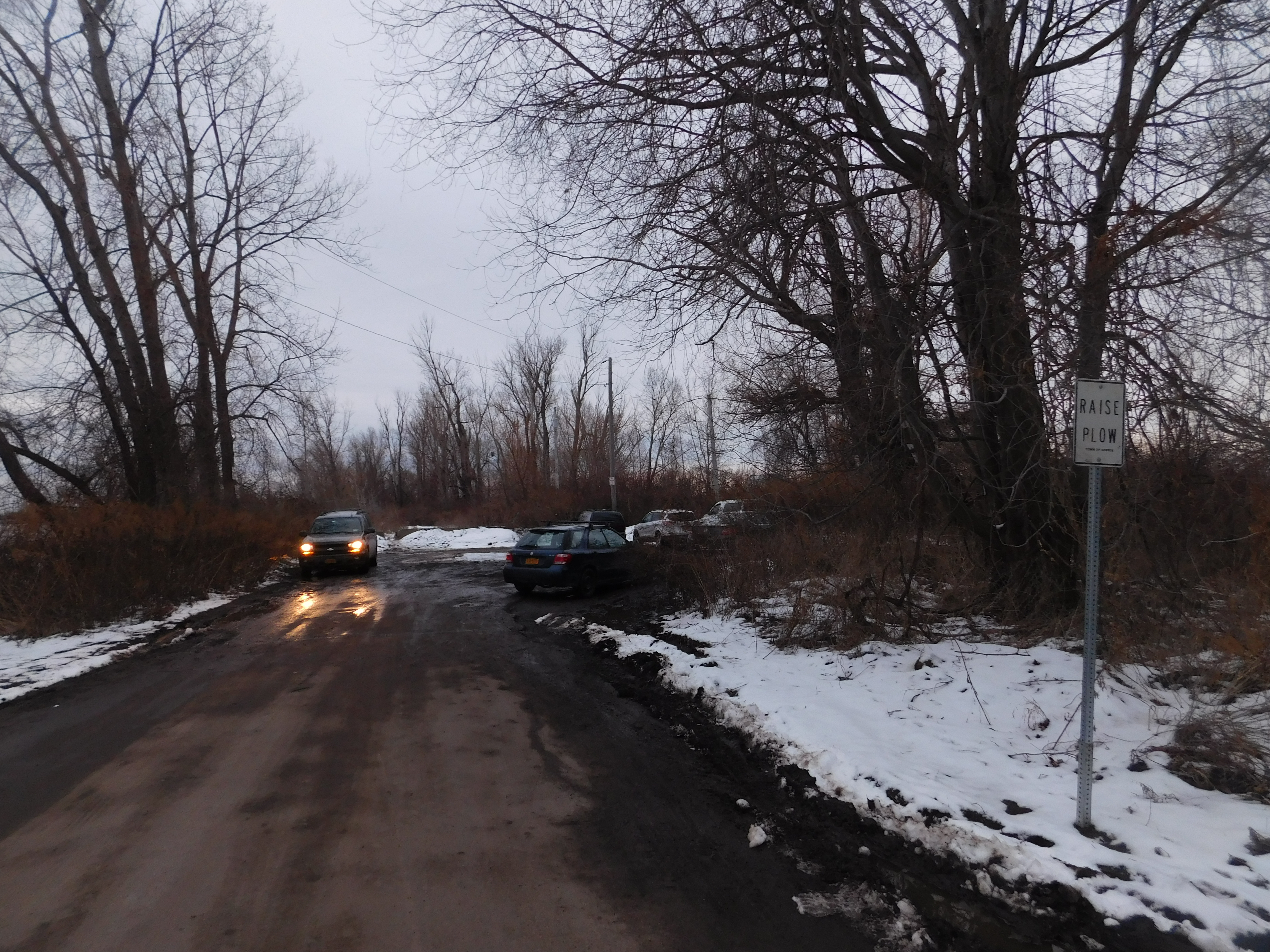 NY 261 northbound at the dead end in Manitou Beach, New York.